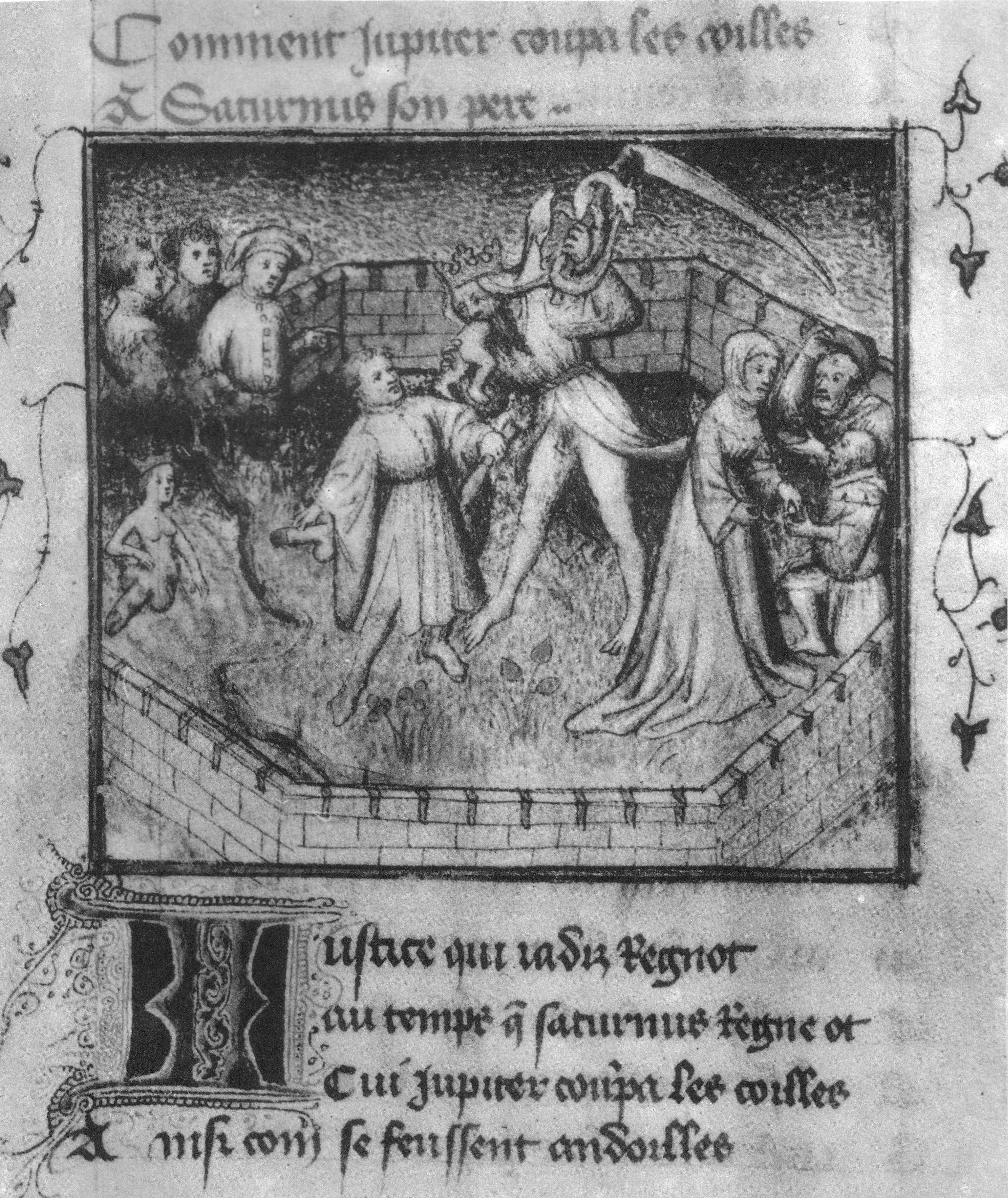 The castration of Saturn and the birth of Venus on the left; Valencia, manuscript 387, folia 40 recto.